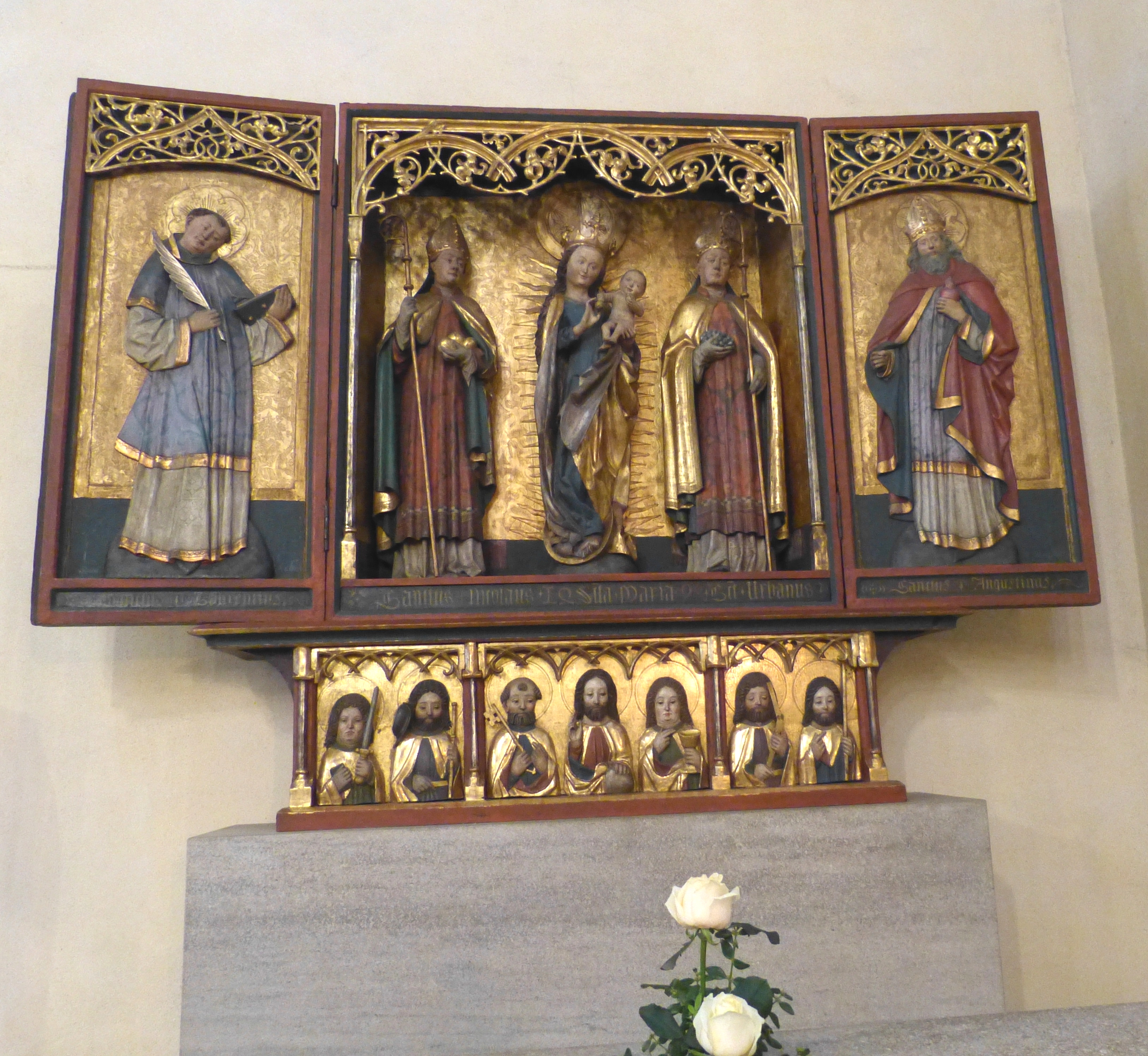 Nuremberg ( Middle Franconia ). Saint Claire church : Altar of Mary ( 15th century ).